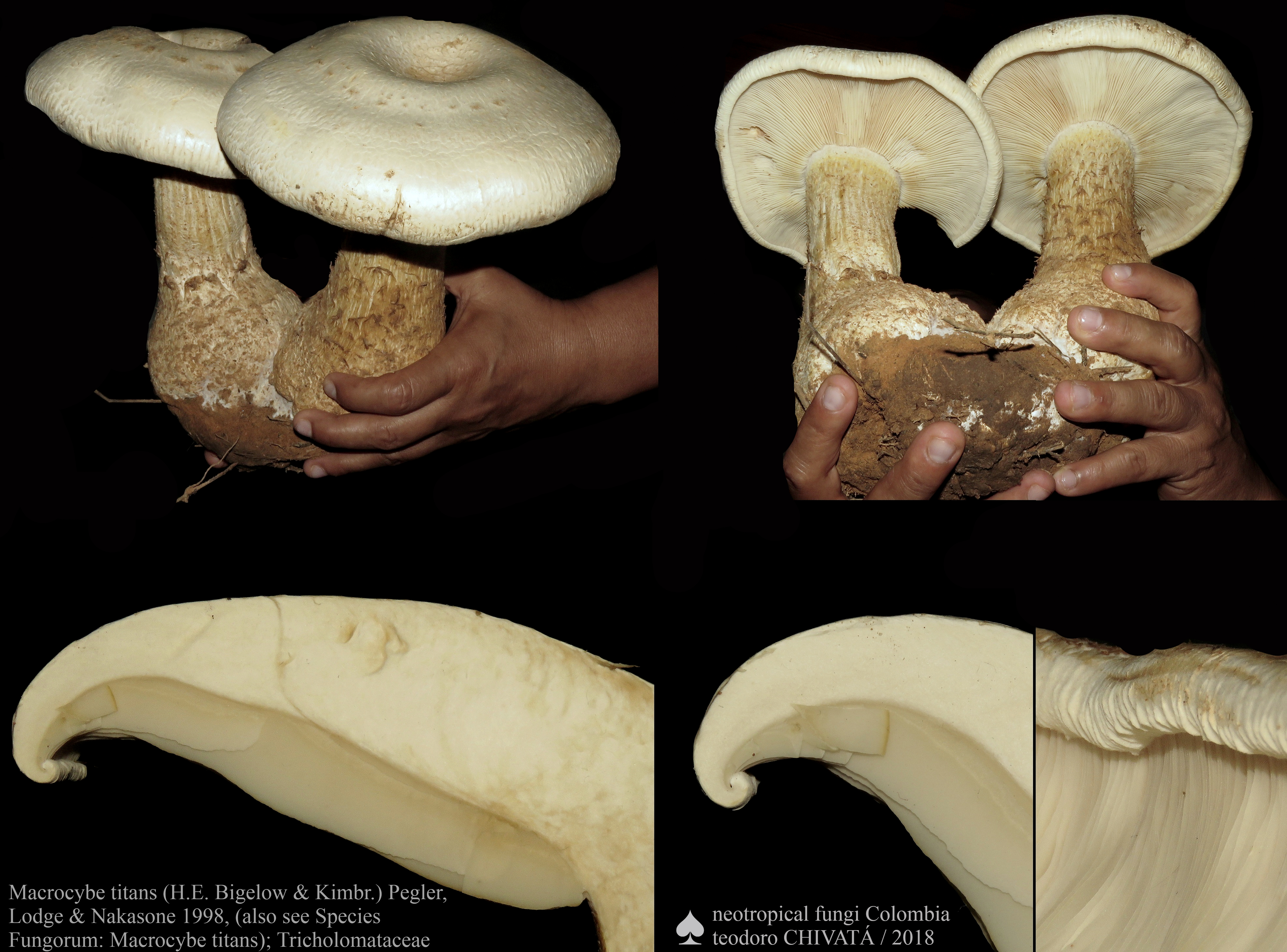 Macrocybe titans (H.E. Bigelow & Kimbr.) Pegler, Lodge & Nakasone Image location: Yopal, Casanare, Colombia Recognized by sight For more information about this, see the observation page at Mushroom Observer.